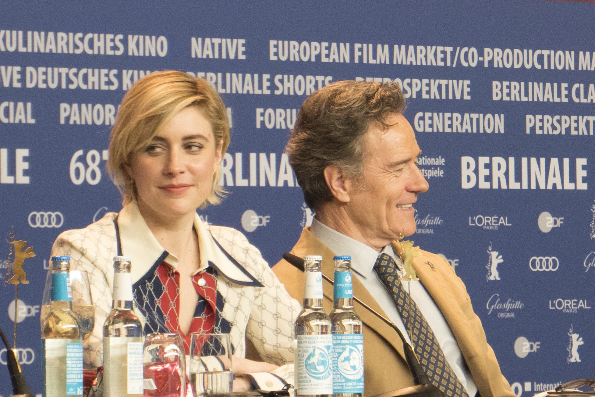 Greta Gerwig and Bryan Cranston at the press conference of Isle of Dogs at Berlinale 2018